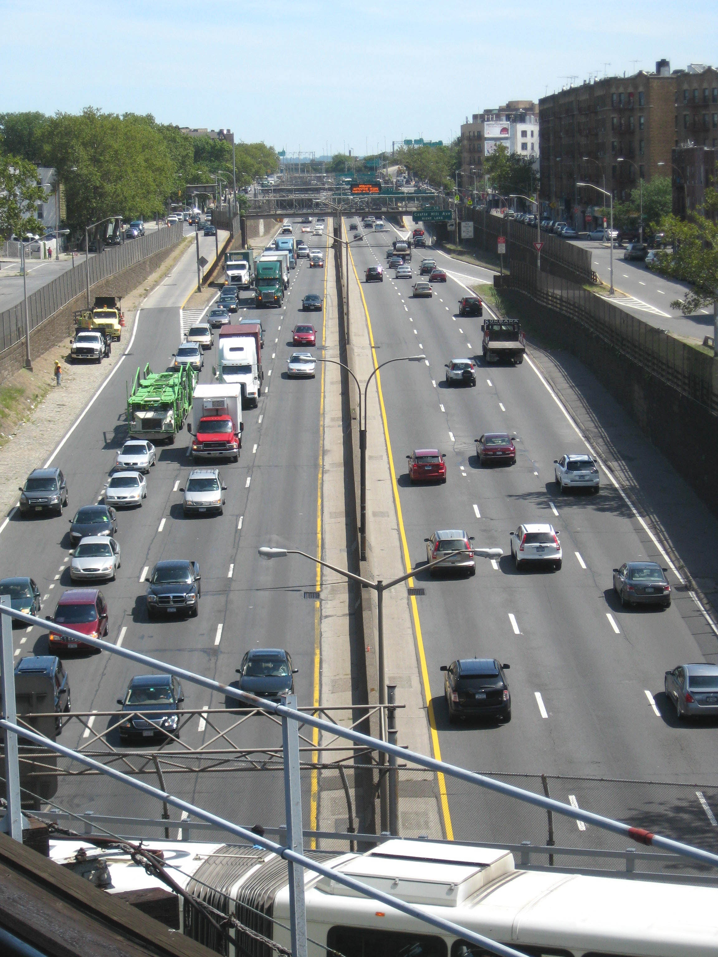 Loking east along Cross Bronx Expressway from northbound platform of the Parkchester (IRT Pelham Line) station on a sunny midday